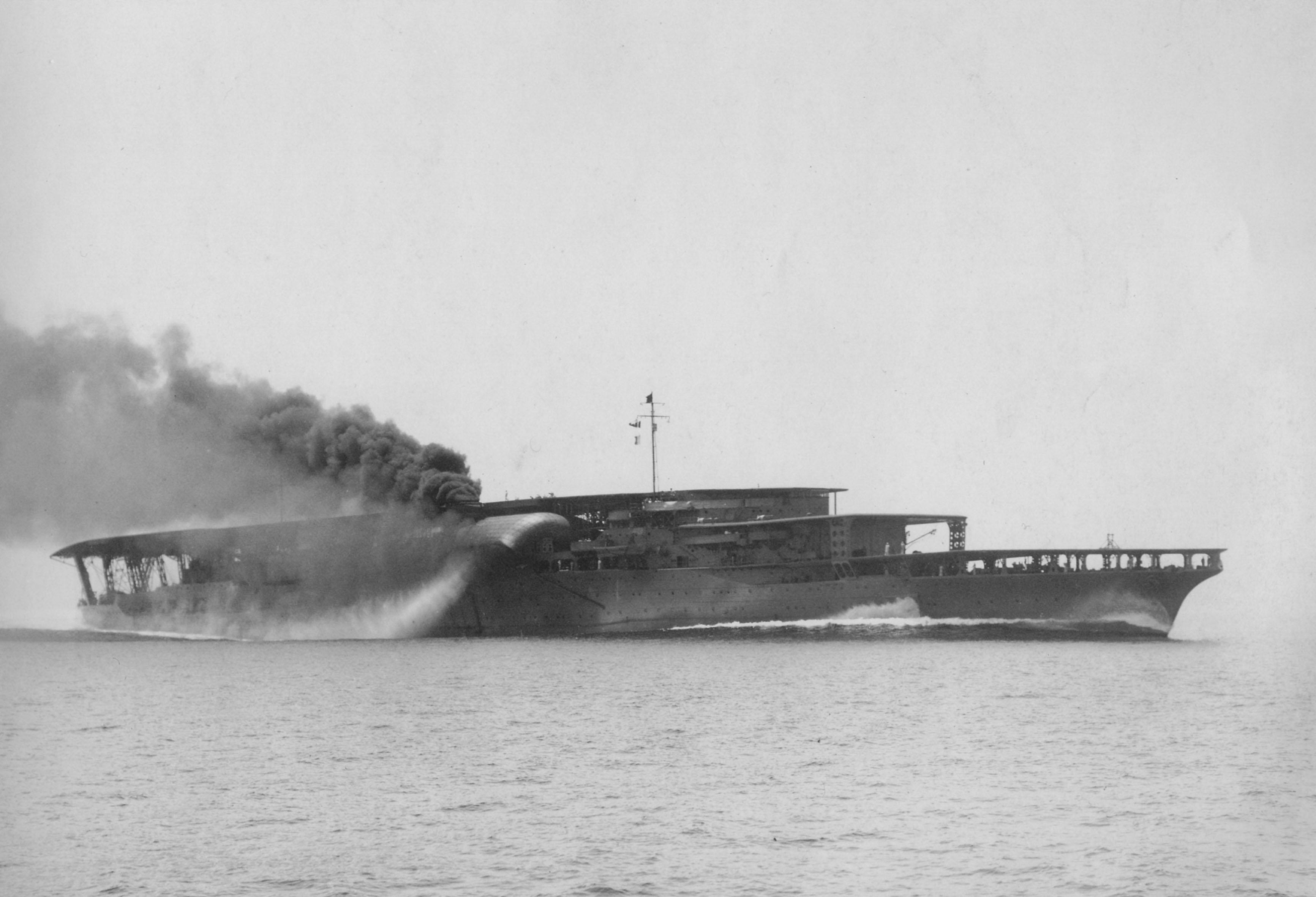 The Imperial Japanese Navy aircraft carrier Akagi undergoing trials off Iyonada. Early in her career, she was fitted with three flight decks; the two lower decks were later plated over in a mid-1930s refit.[1]